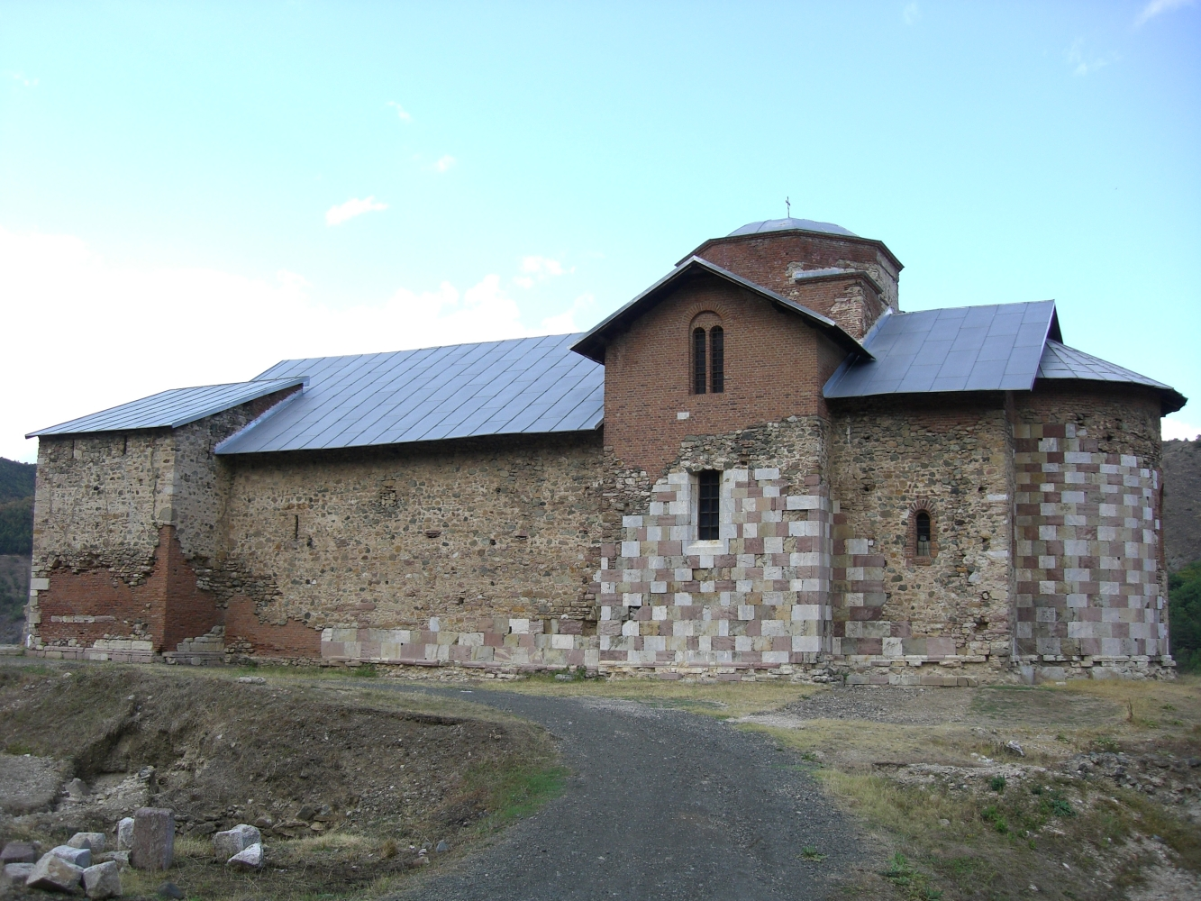 Banjska Monastery, side view